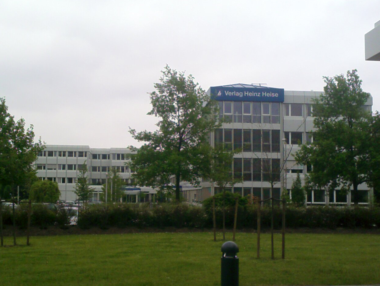 Publishing house "Heinz Heise Verlag" in Hannover, Germany as seen from Medical School Hannover